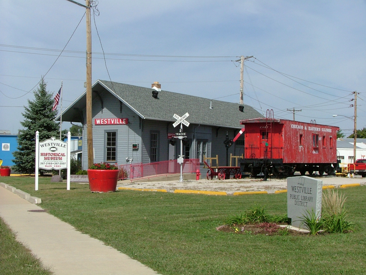 The historical museum in Westville, Illinois, from the south